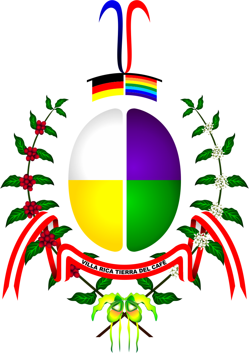 District of Villa Rica - Oxapampa - Pasco Region